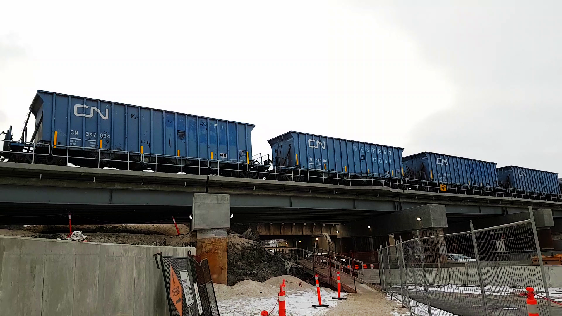 Four CN Westray Coal Hoppers heading west through Winnipeg, MB. Left to Right: CN 347034, 347001, 347006, 347028